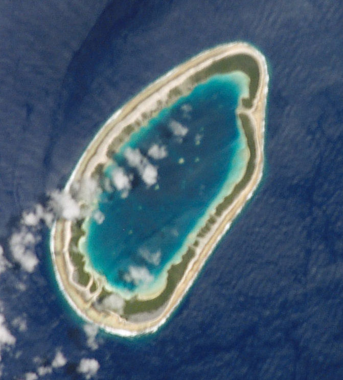 Atoll Maria Est (Tuamotu Archipelago, French Polynesia), from space.